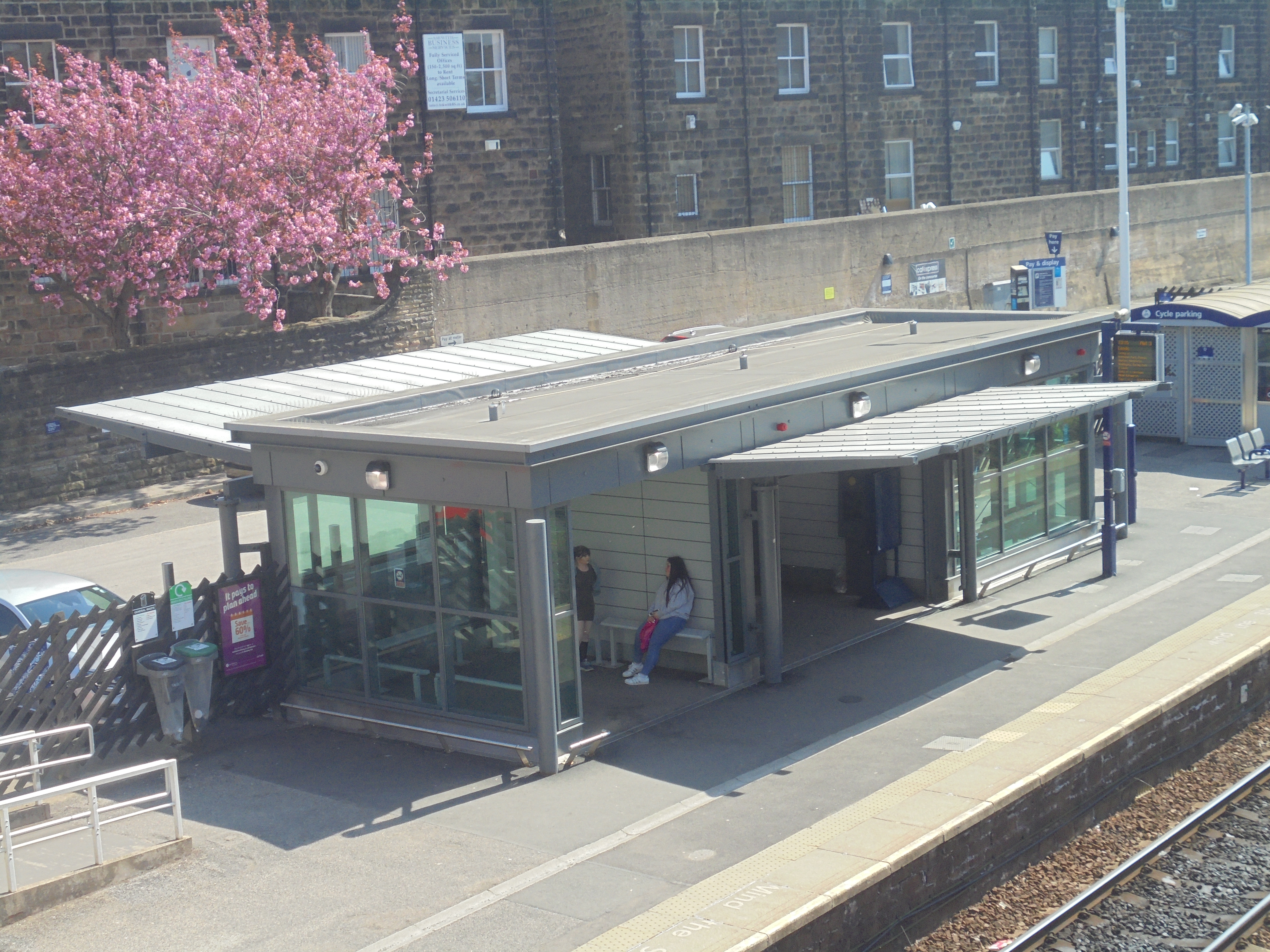 Building on the York bound platform seen from the station bridge, Harrogate railway station, Harrogate, North Yorkshire. Taken on the morning of Good Friday the 19th of April 2019.